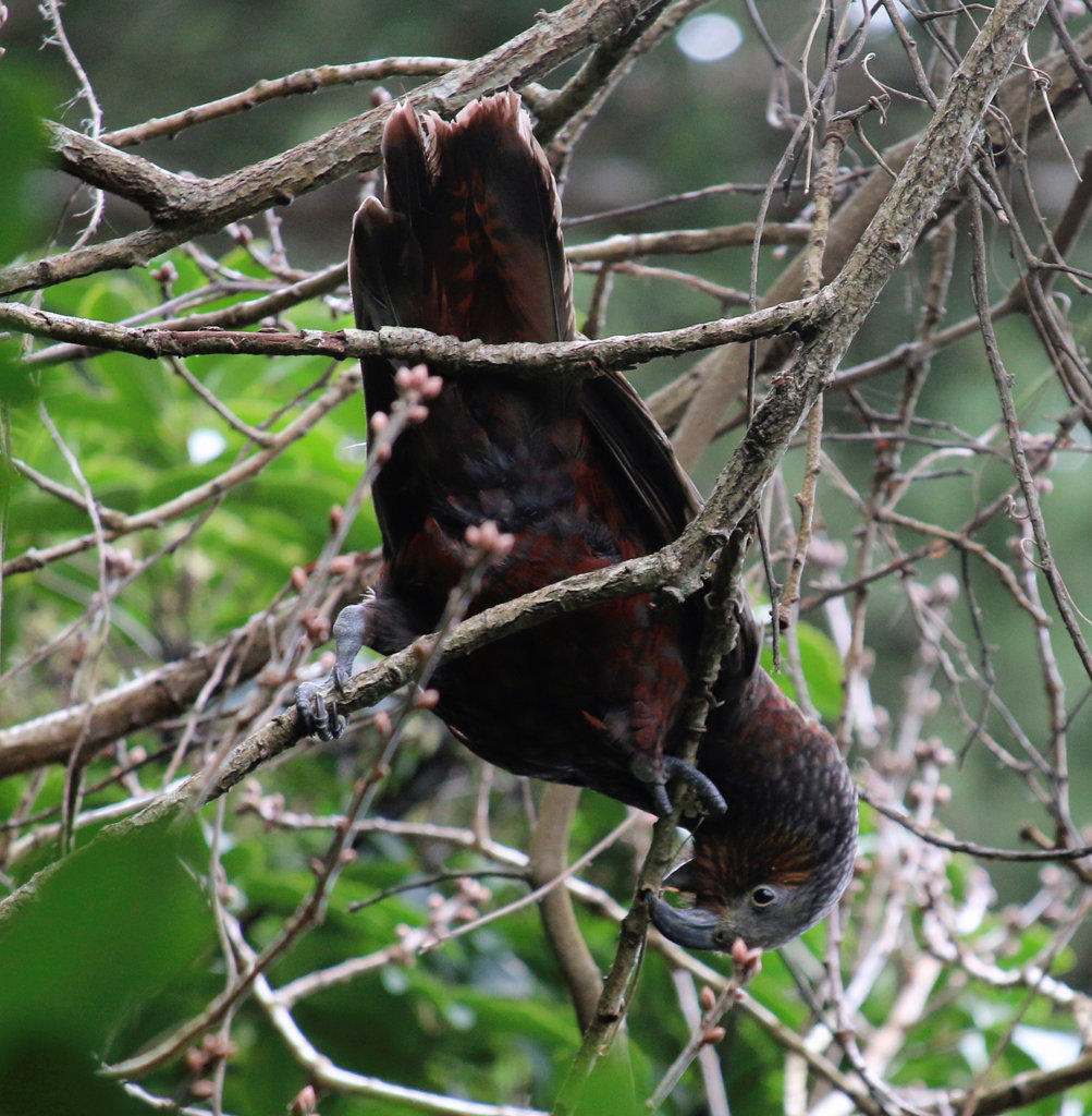 Kaka have high energy needs, especially in the spring when they are raising young.